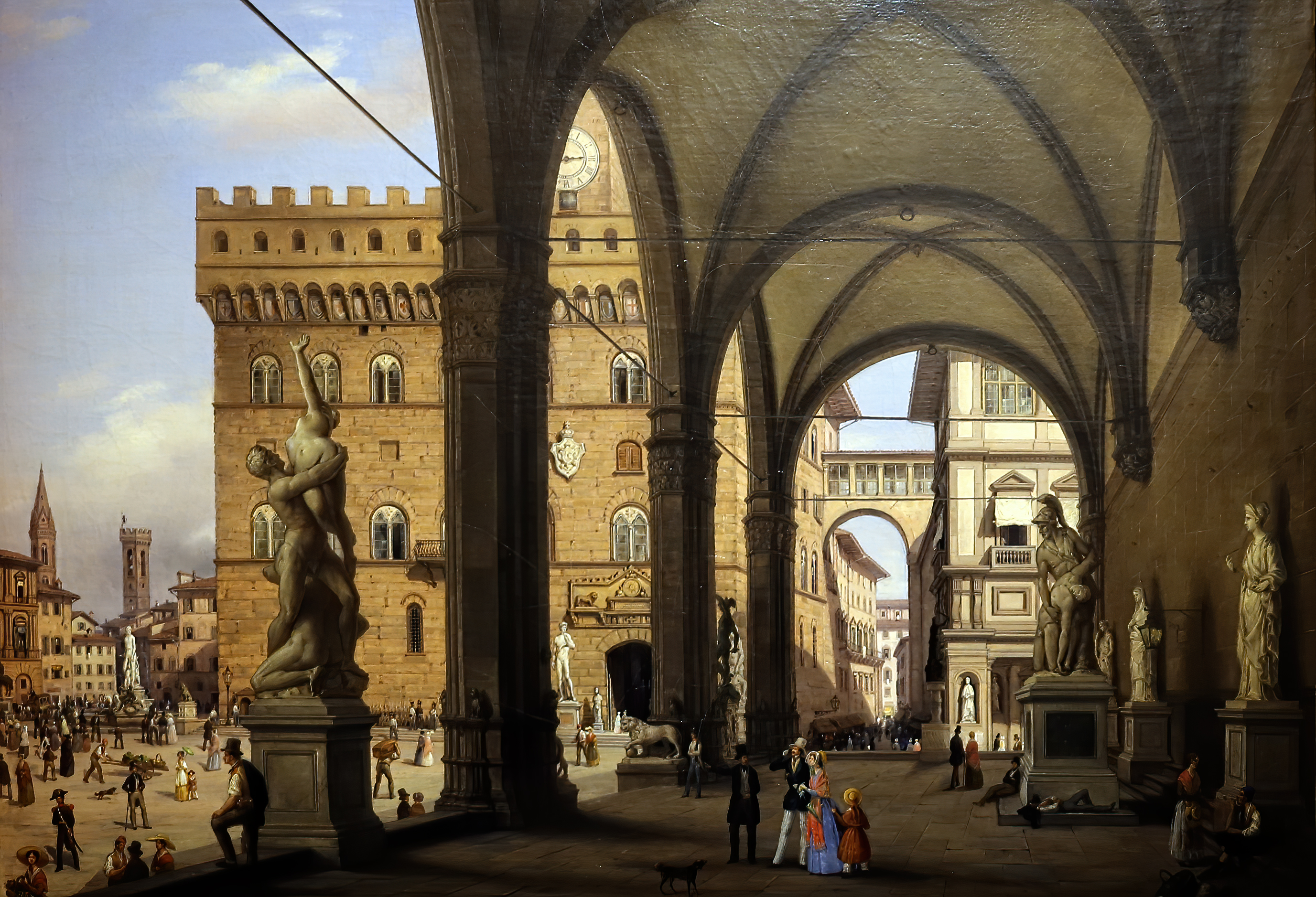 Painting of the Piazza Della Signoria and Loggia Dei Lanzi, 1830 by Carlo Canella derivative of existing Wikimedia Commons File:Carlo canella, veduta di piazza della signoria dalla loggia dei lanzi, 1830, 01.jpg